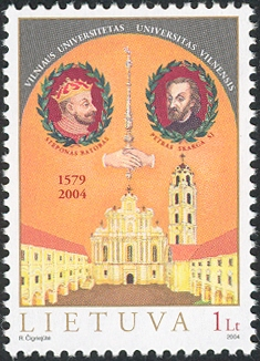 Stamps of Lithuania, 2004